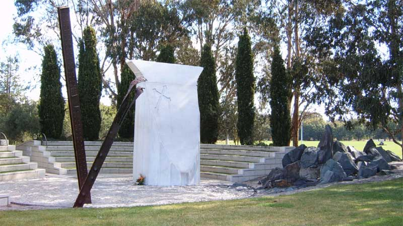 The Hellenic Memorial is on ANZAC Parade, beside the Australian War Memorial in Canberra, the national capital city of Australia.